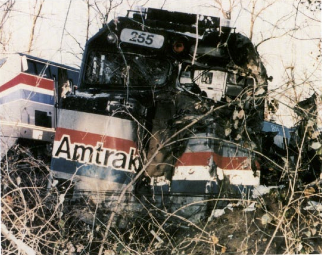 Amtrak EMD F40PHR #255 was wrecked in the crash.